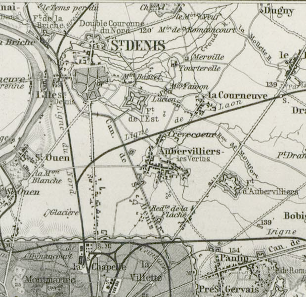 "Paris und Umgebung" From Mittheilungen aus Justus Perthes' geographischer Anstalt.